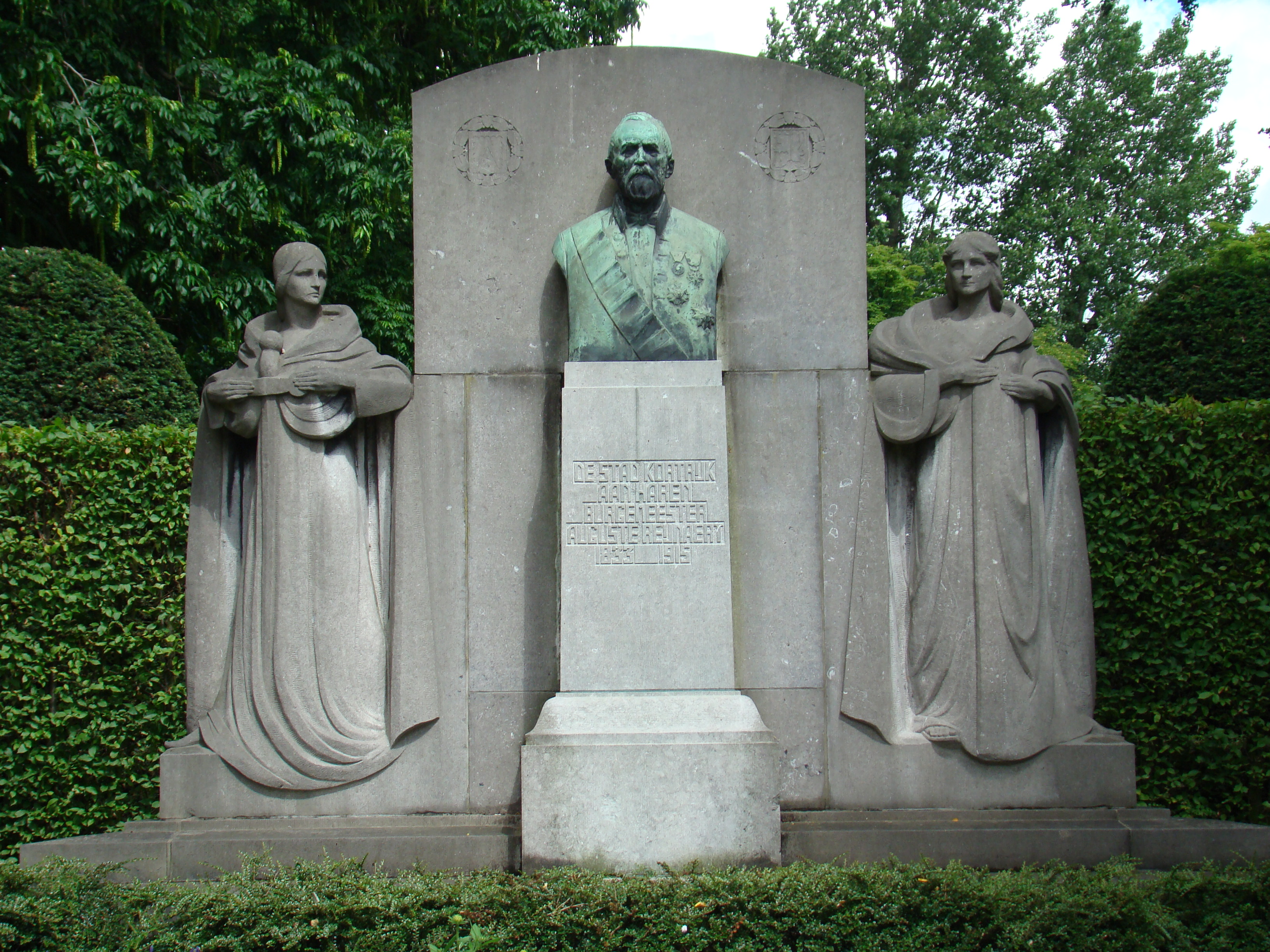 Astridpark , Kortrijk (West Flanders, Belgium)